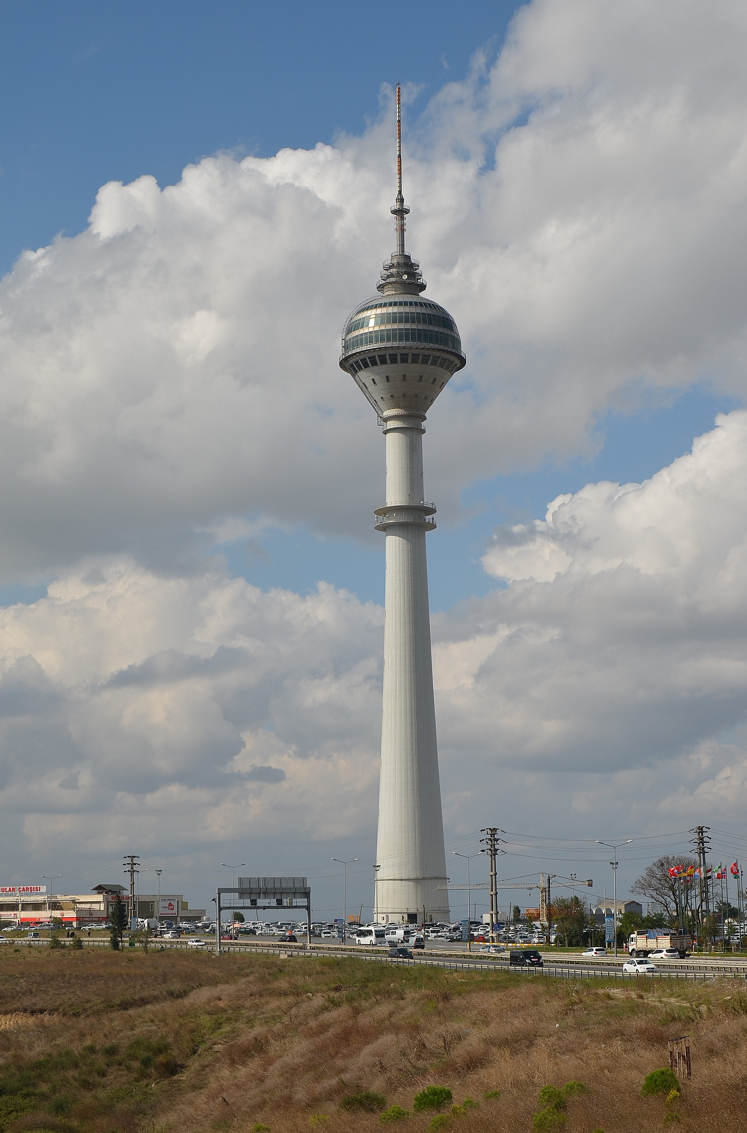 Endem TV Tower in Beylikdüzü, Istanbul